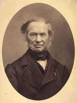 Søren Larsen (1802-1890), Danish surgeon